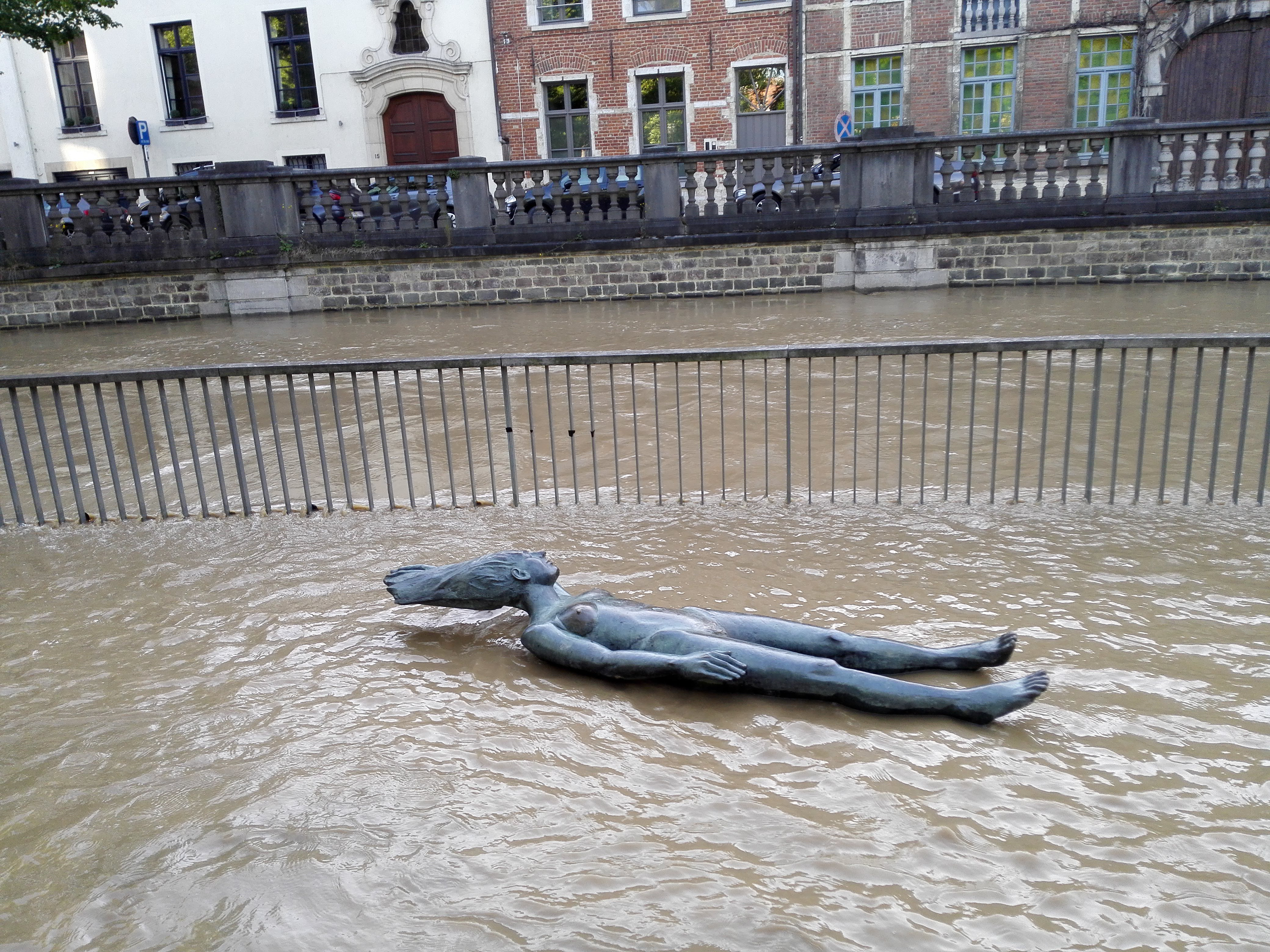 Lying statue of Fiere Margriet, seemingly floating, although not upstream like in the legend of Leuven